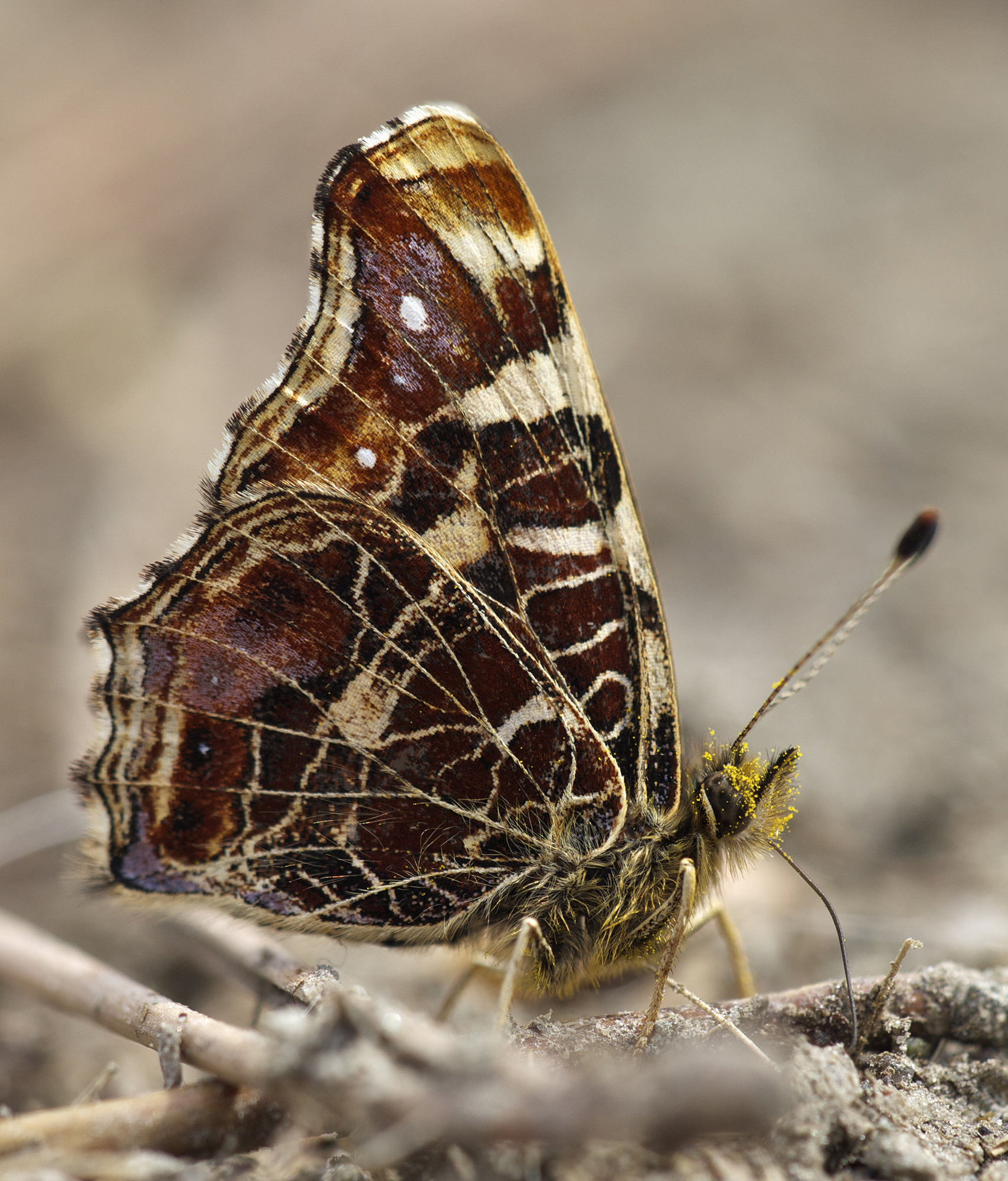 Map (Araschnia levana), Chemnitz, Germany